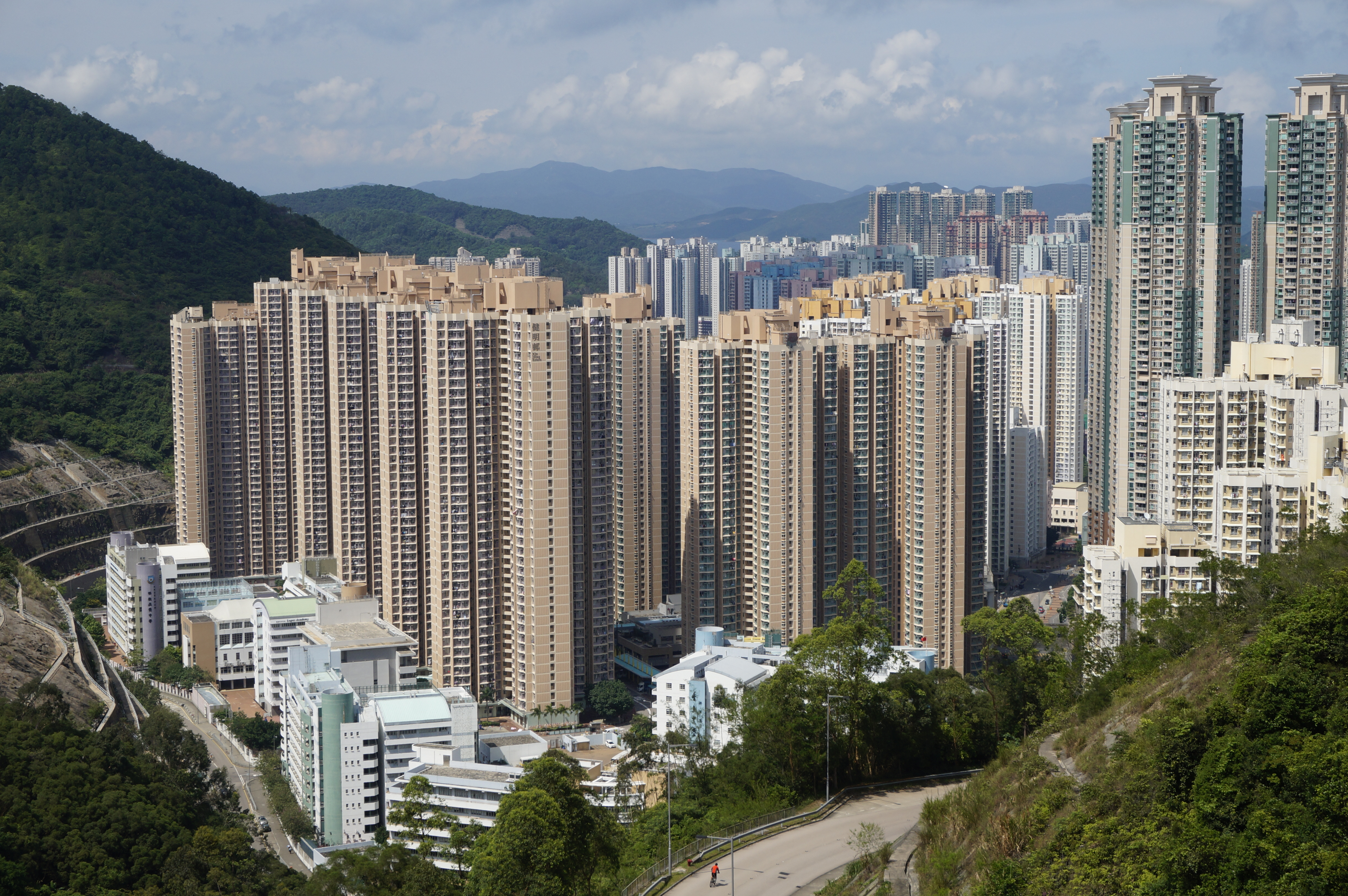 Kin Ming Estate